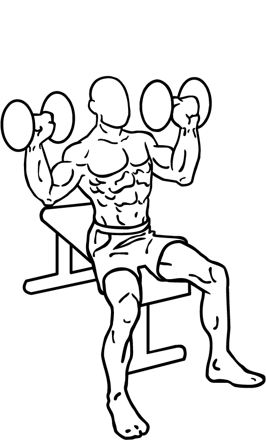 an exercise of shoulders